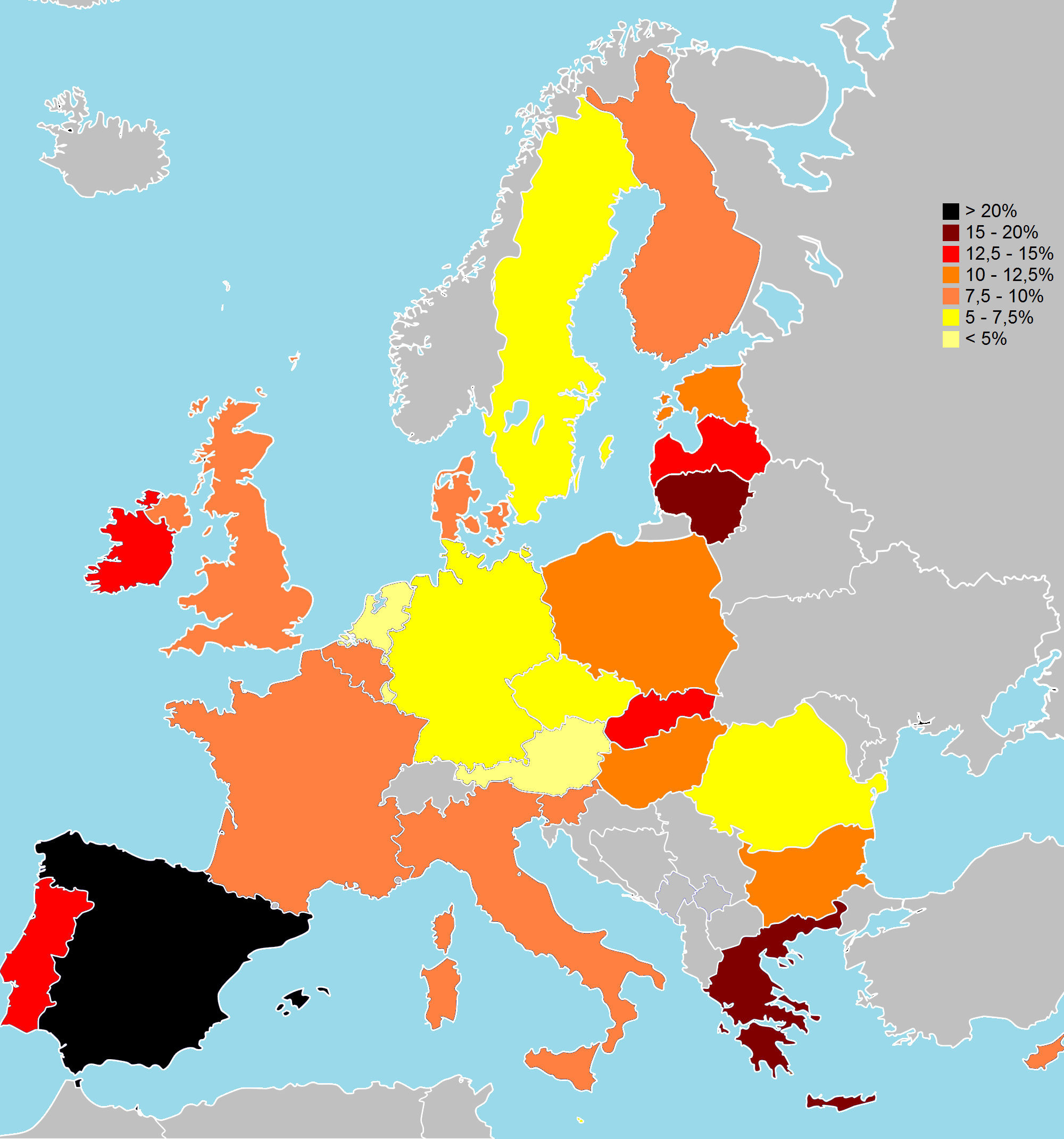 Unemployment rates of EU members as of November 2011